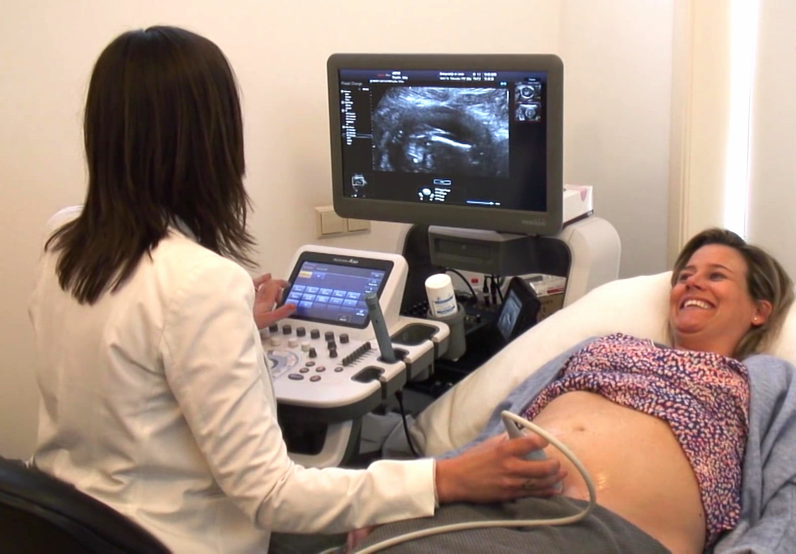 Pregnancy check-up with a obstetrics technician.